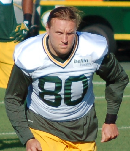 2015 Packers training camp